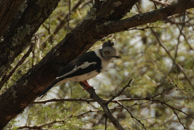 A Grey-crested Helmet-shrike in Serengeti, Tanzania.